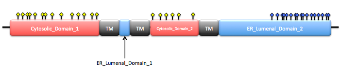 Schematic illustration of TMCO4. The N-terminus is located within the cytosol, and the C-terminus is located in the lumen of the endoplasmic reticulum. The yellow diamonds represent predicted phosphorylation sites and the blue triangles represent predicted O-linked glycosylation.